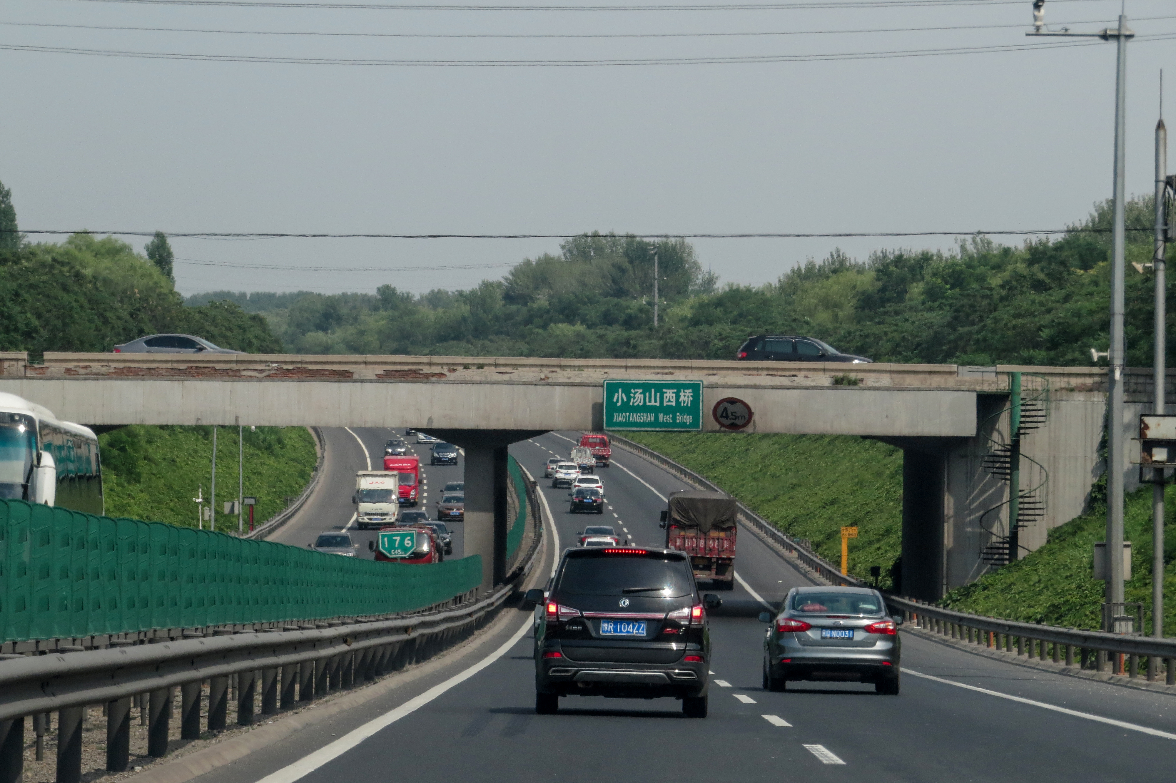 Stink warning - Asuwei ahead!